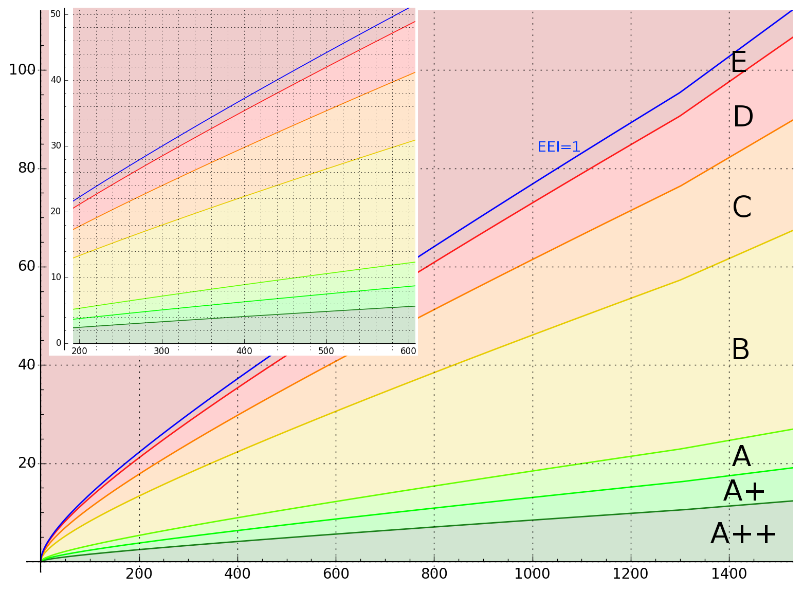 Graph that show for every luminous flux (lm) the power(W) for every european energy class